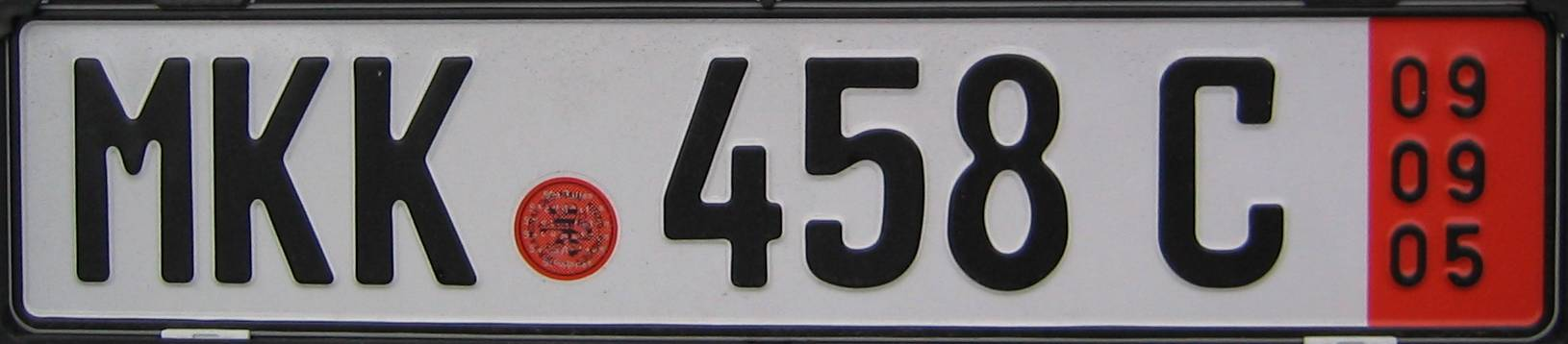 Picture of a German export registrions plate. Picture take by myself in Great Britain on 2005-08-26 afternoon.